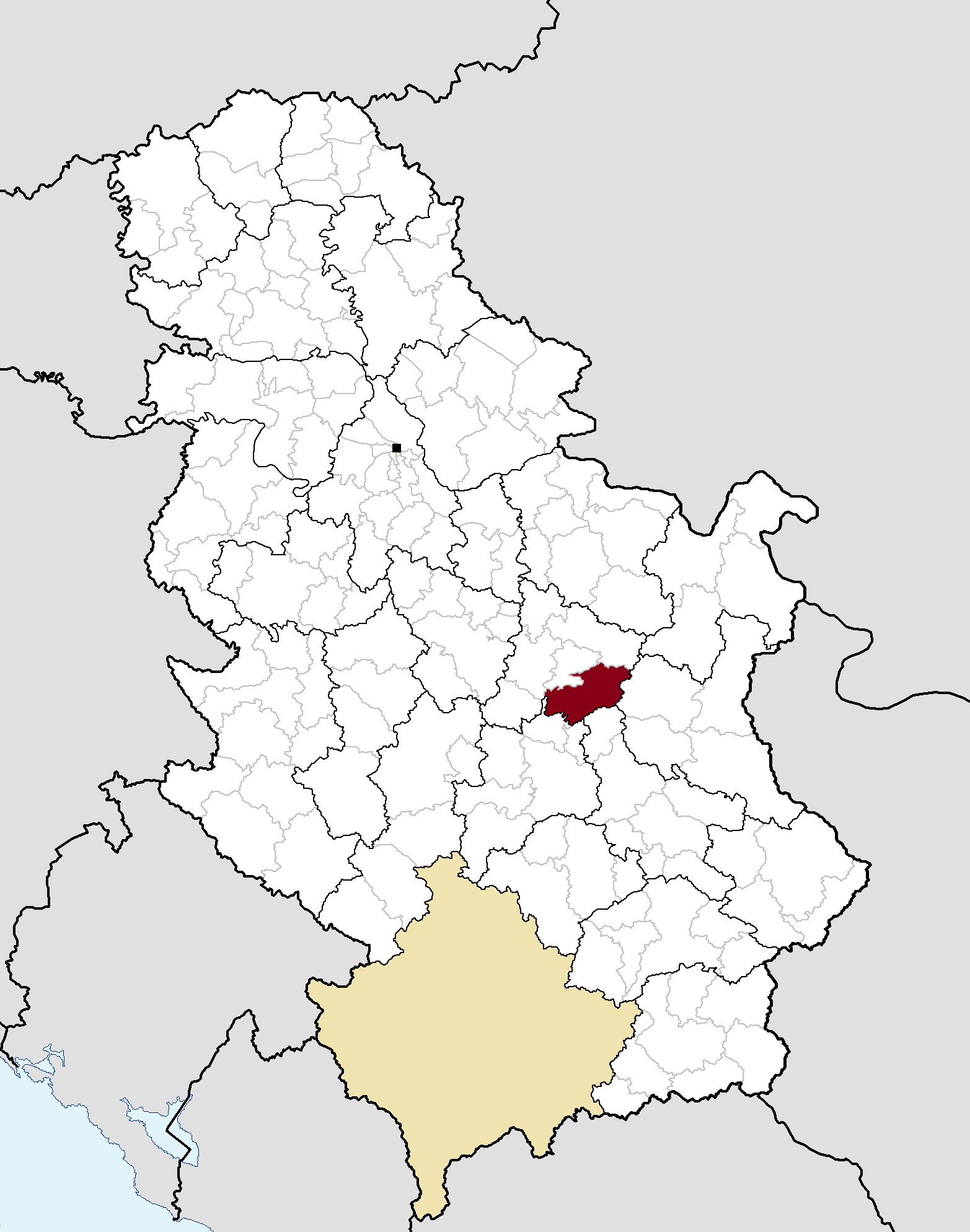 Municipal location in Serbia